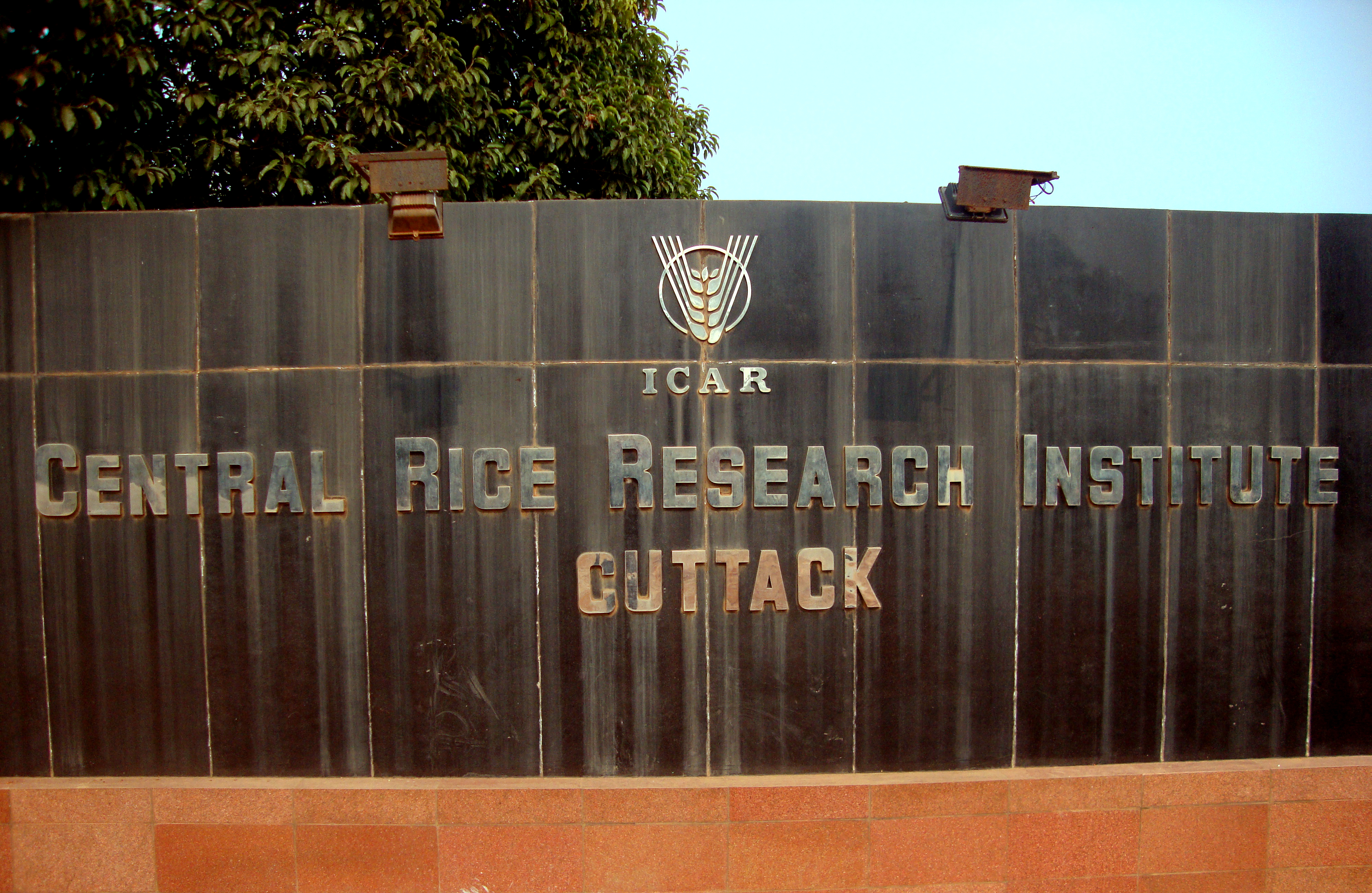 Central Rice Research Institute cuttack